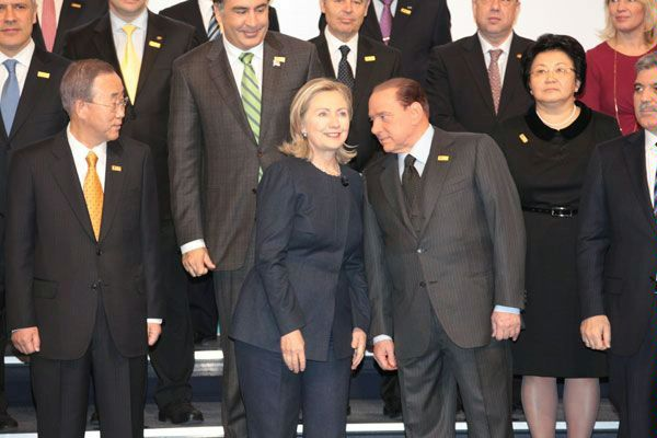 U.S. Secretary Hillary Rodham Clinton and Italian Prime Minister Silvio Berlusconi chat during the "family photo" at the start of the 2010 Organization for Security and Co-operation in Europe Summit in Astana, Kazakhstan. Secretary-General of the United Nations Ban Ki-moon looks on from the left.